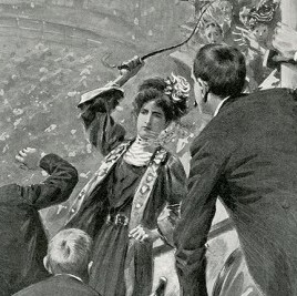 Helen Ogston being arrested on the 6 December 1908 as appearred in the Illustrated London News (that would have been sold in the US)